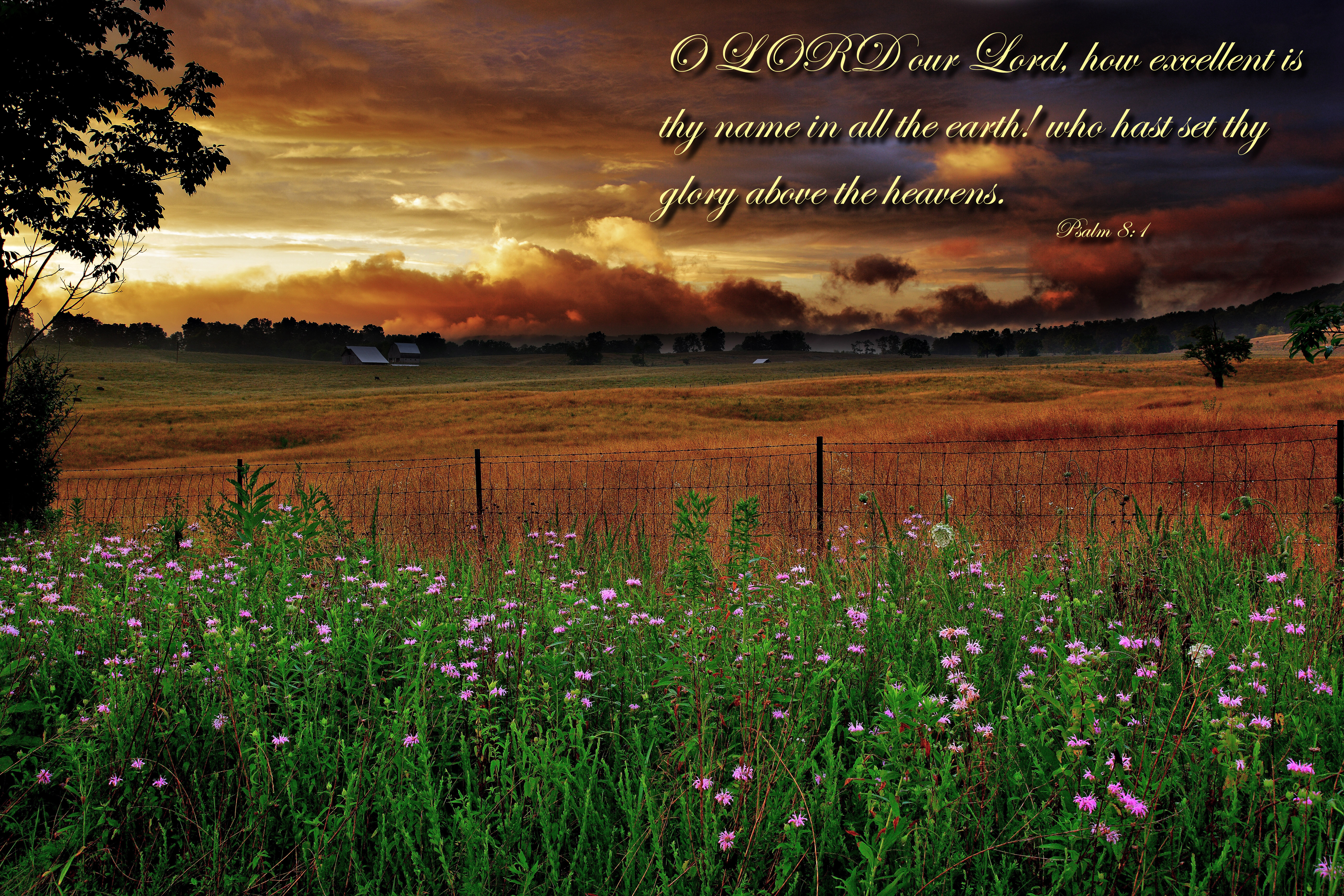 Psalms 8-1